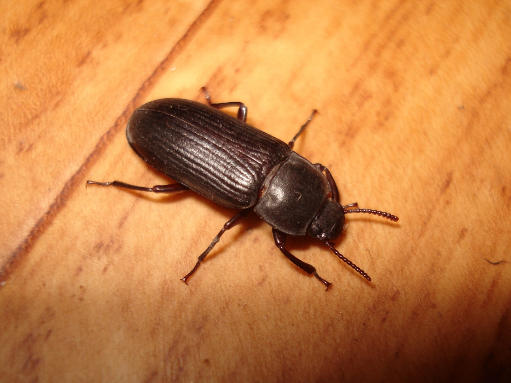 Mealworms are the larva form of the mealworm beetle (Tenebrio molitor)